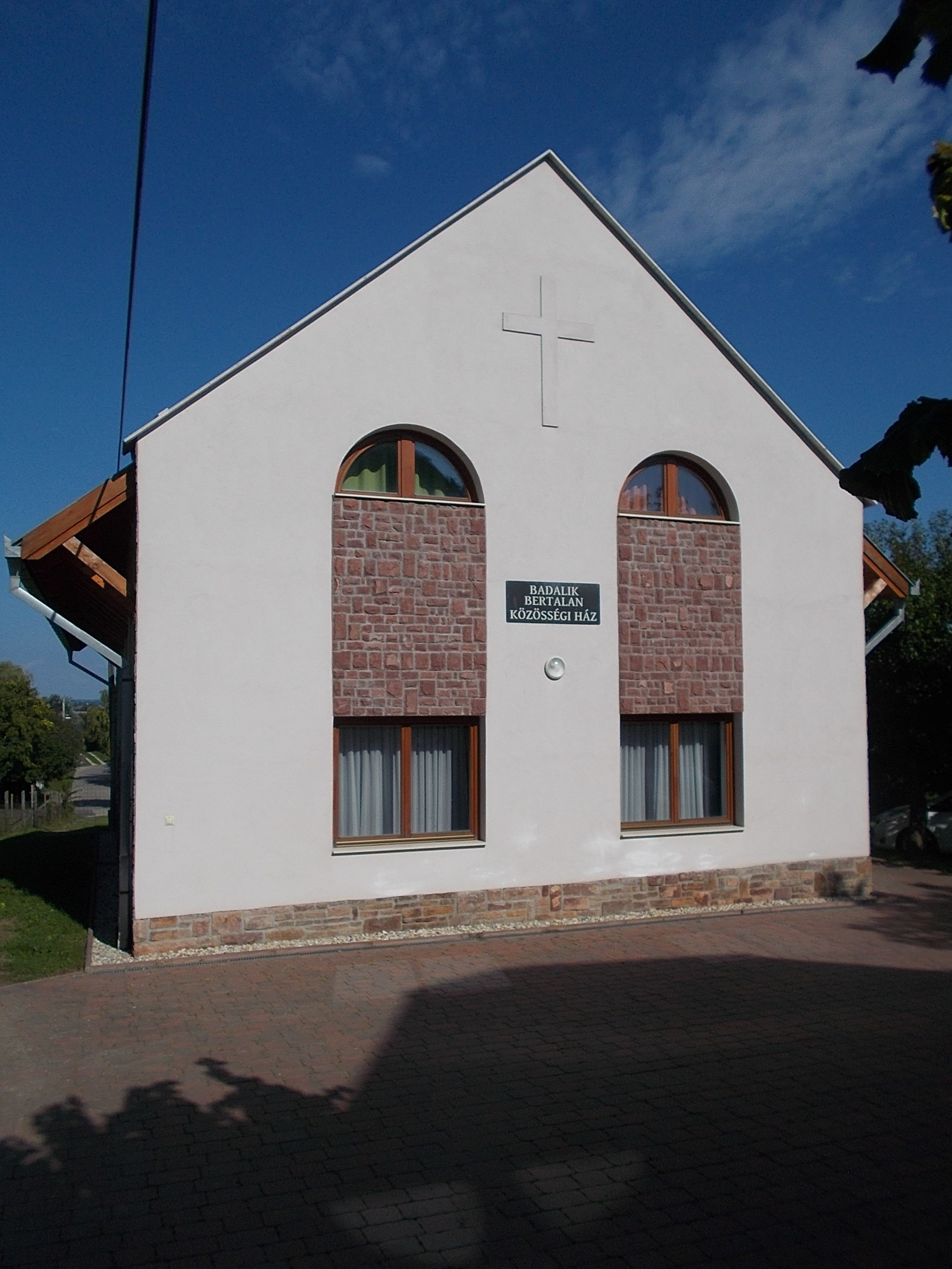 Roman Catholic Parish of Balatonlelle, Badalik Bertalan Community House. - Sorház köz/Kossuth Lajos street, Balatonlelle, Somogy County, Hungary.